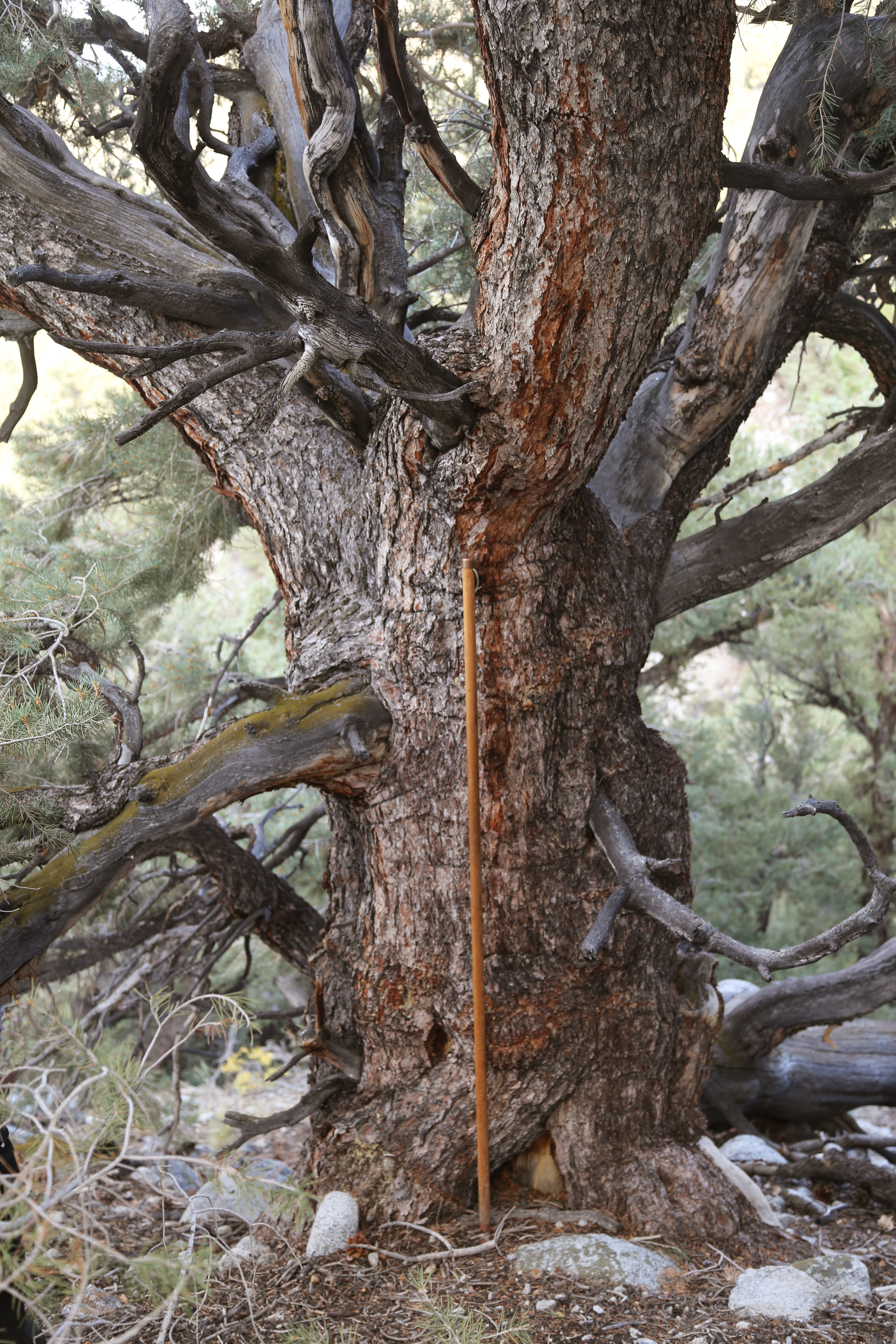 Trunk of very large pinyon pine (Pinus monophylla), over 12 ft in circumference; pole is 6 ft 0 in, for comparison. On ridge above Hilton Creek, Mono County CA, near Hilton Lakes trail.